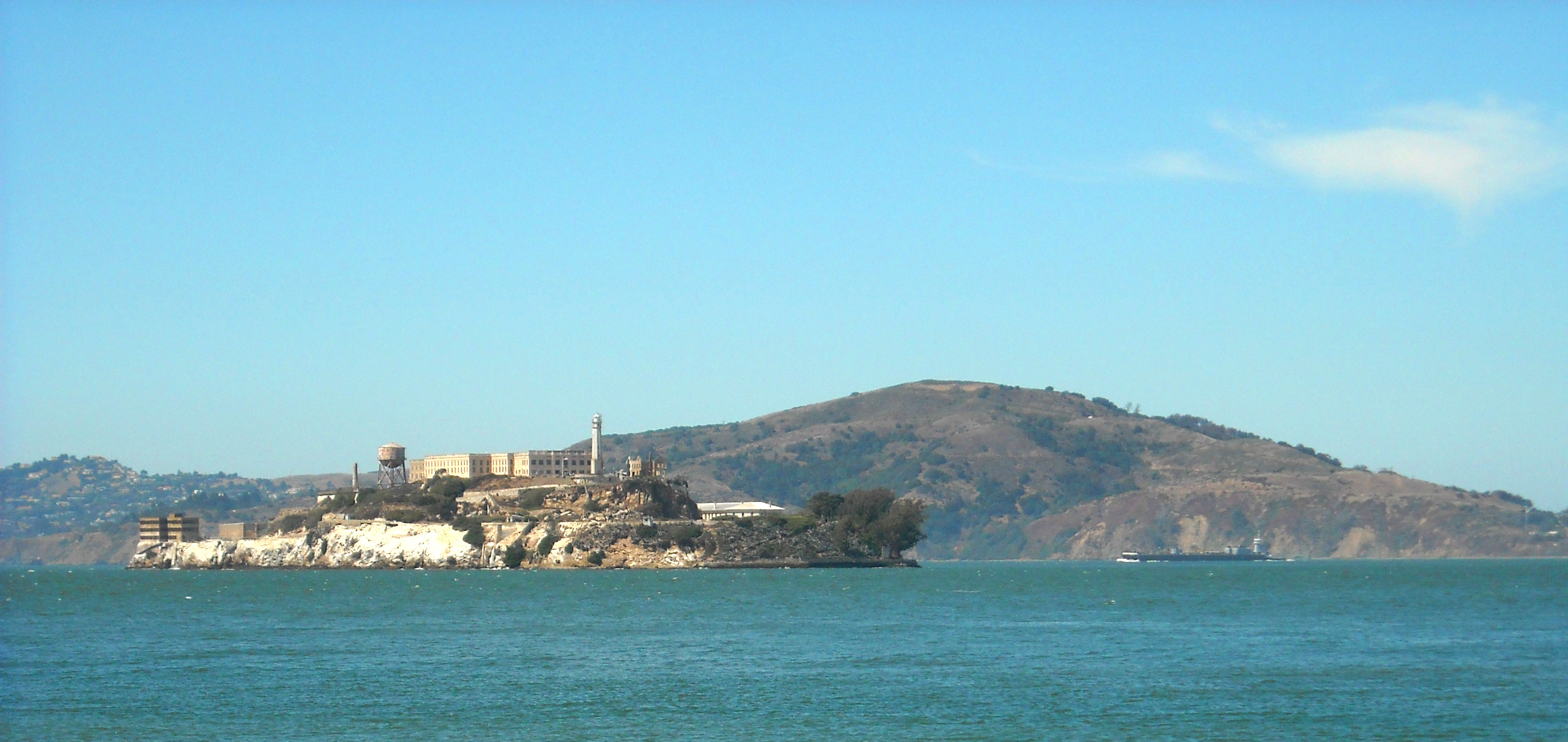 Alcatraz in the front, Angel Island in the back.